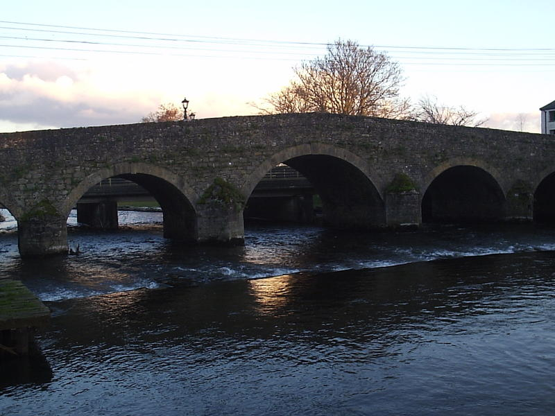 The bridge over river Eukina.